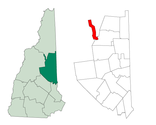 Created from Boundary/Border Outline Files of the Libre Map Project which held a BY-SA creative commons license. Data origionally from 2000 US Census boundary data.